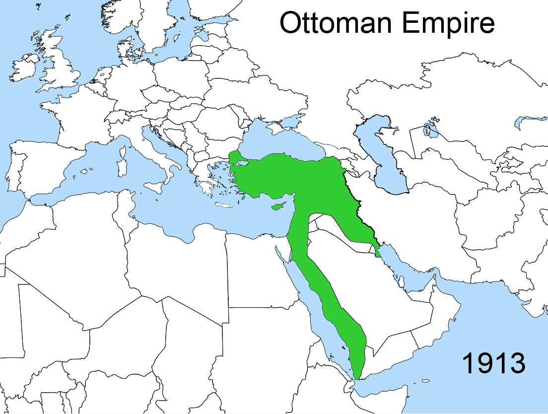 Territorial changes of the Ottoman Empire